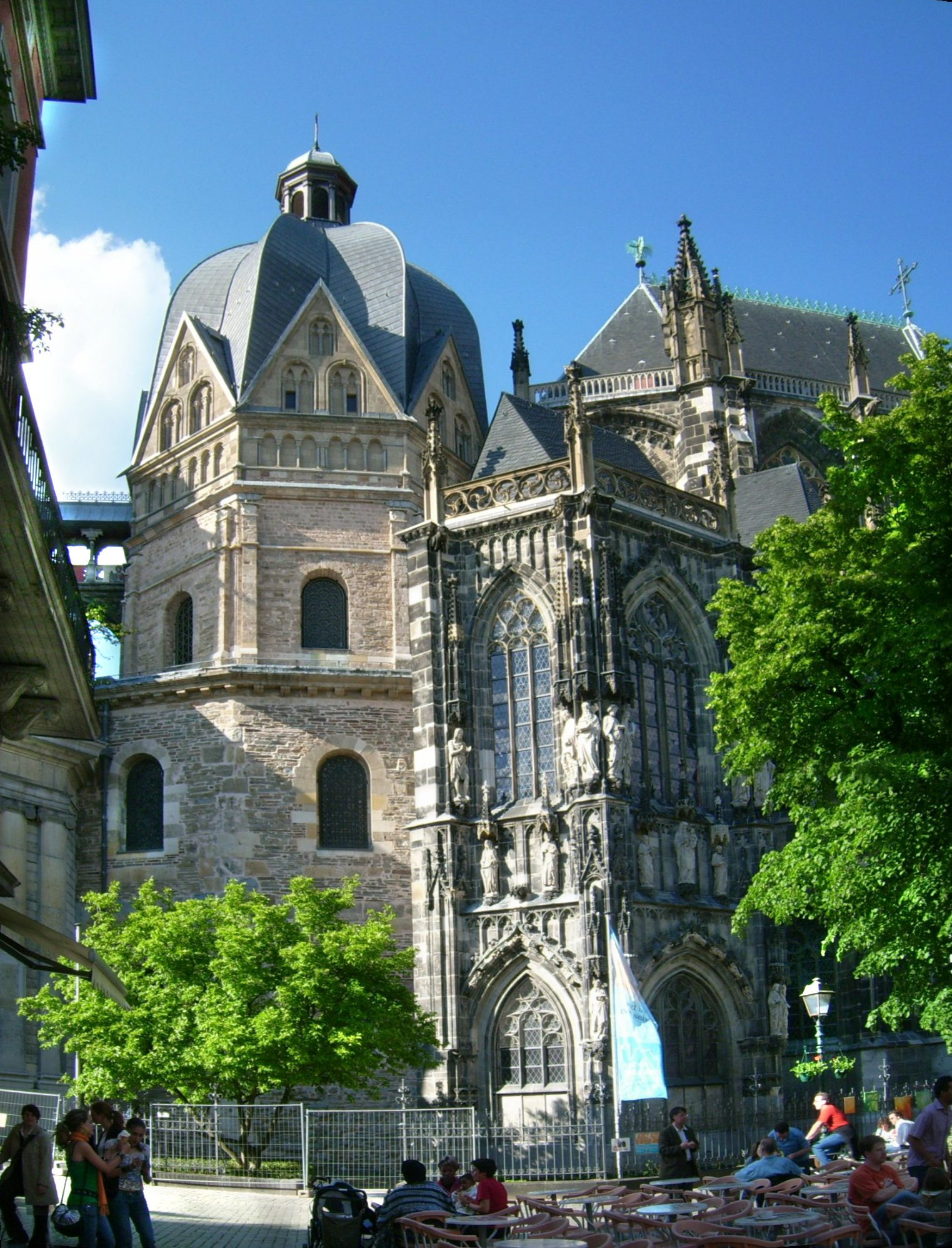 Panoramablick vom Rathaus